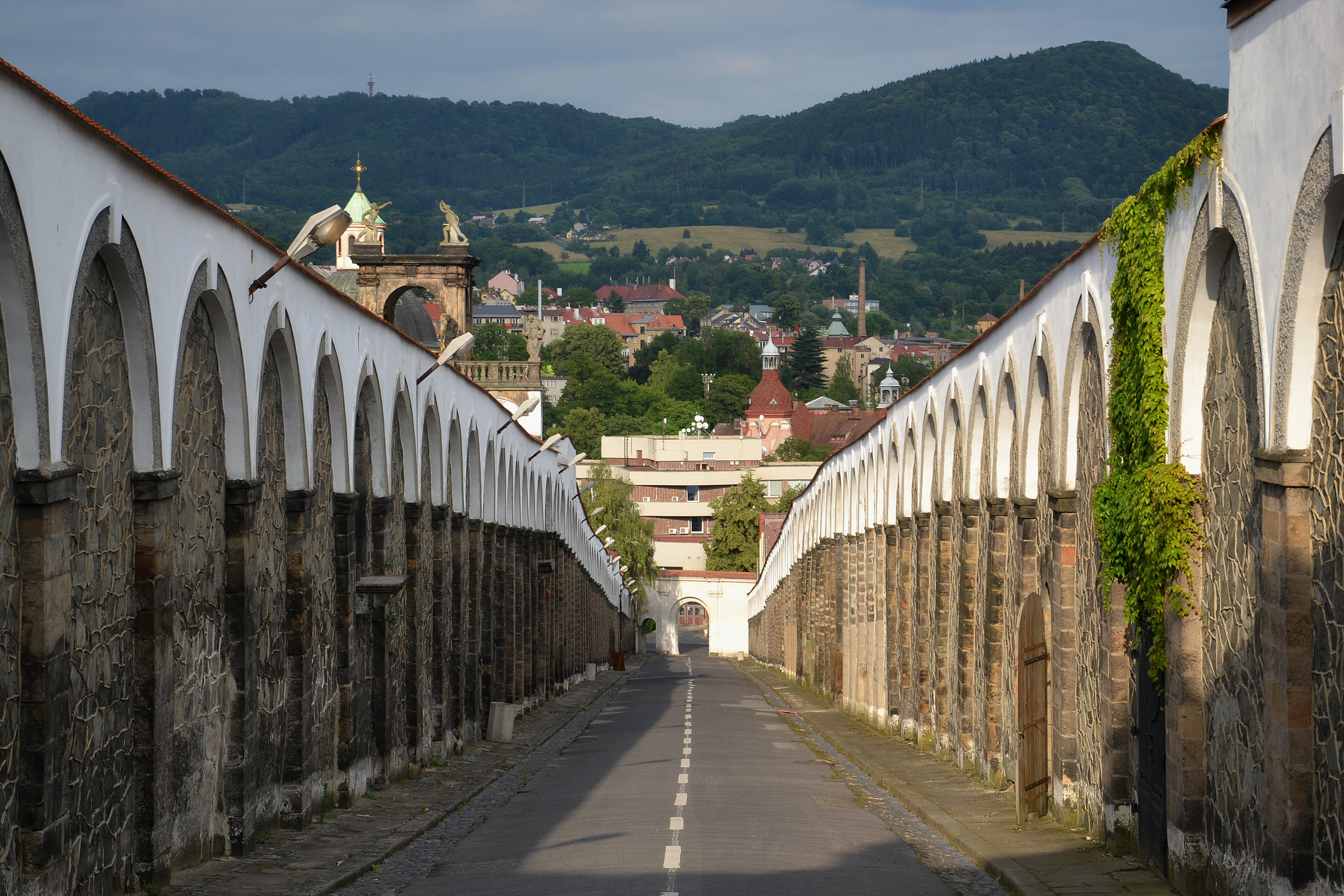 The Long Drive is a walled road leading to Děčín (Tetschen) Castle, Czech Republic